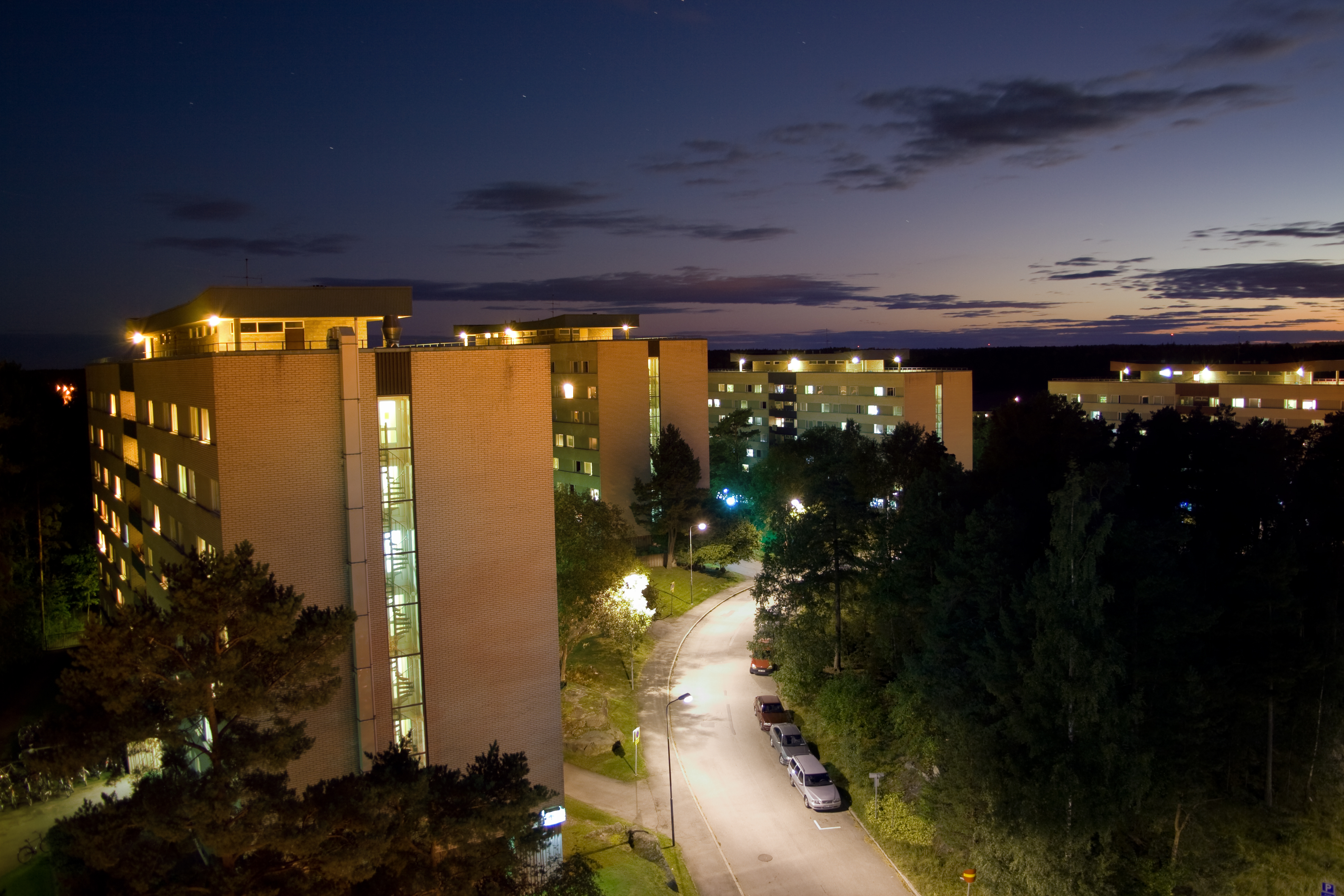 Photo of the street Sernanders väg taken from the roof of house 8 in Flogsta, Uppsala, Sweden.